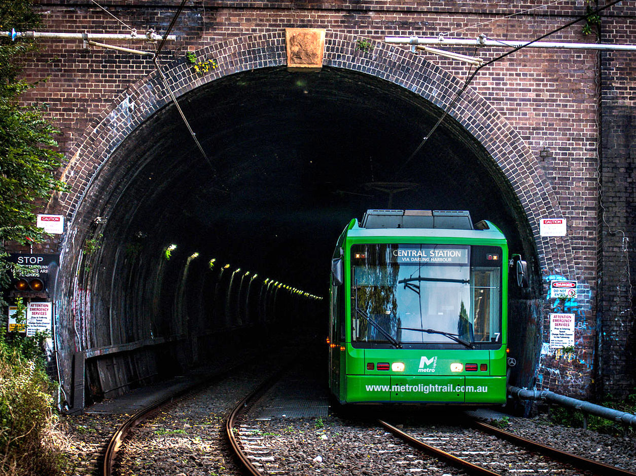 Metro Light Rail Glebe Tunnel Entrance